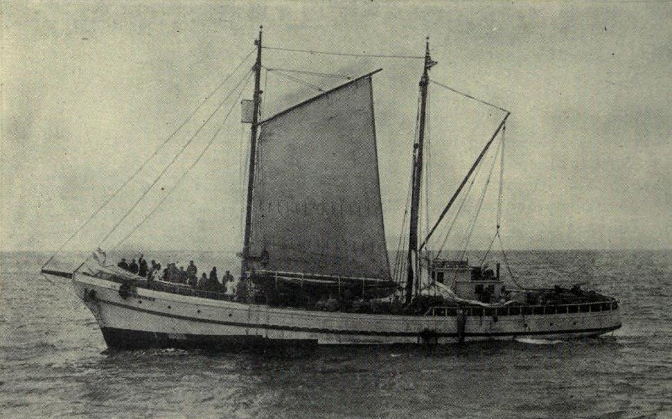 The schooner King & Winge with a crowd of people forward, one sail set. The original legend reads "The King and Winge coming back with Karluk men. Bound for Siberia, the little trading schooner stopped at Wrangel Island and gave the survivors a lift."